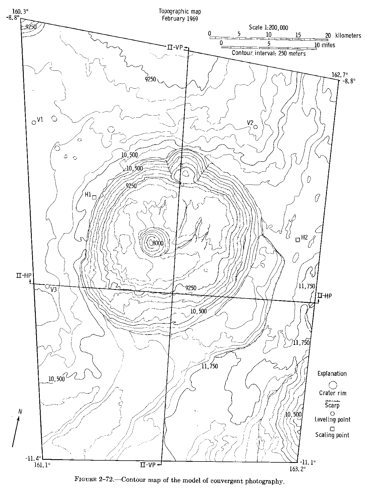 Topographic map of Planté crater, on the far side of the moon. Figure 2-72, with original caption, "Contour map of the model of convergent photography." Original scale 1:200,000. Leveling points (V1, V2, V3) were assumed to be at an arbitrary elevation of 10,000 m.